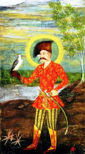 Abbas I of Persia